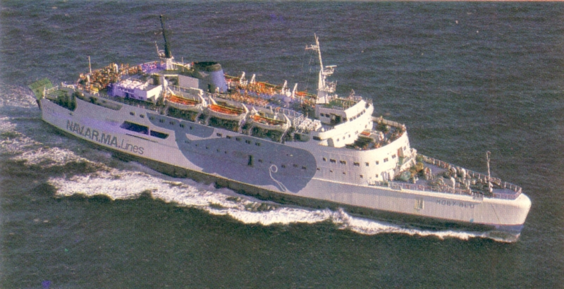 The MN Moby Blu